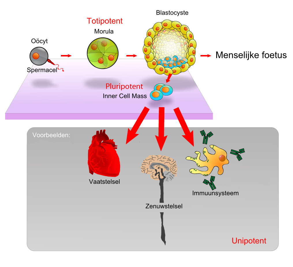 english version with dutch text